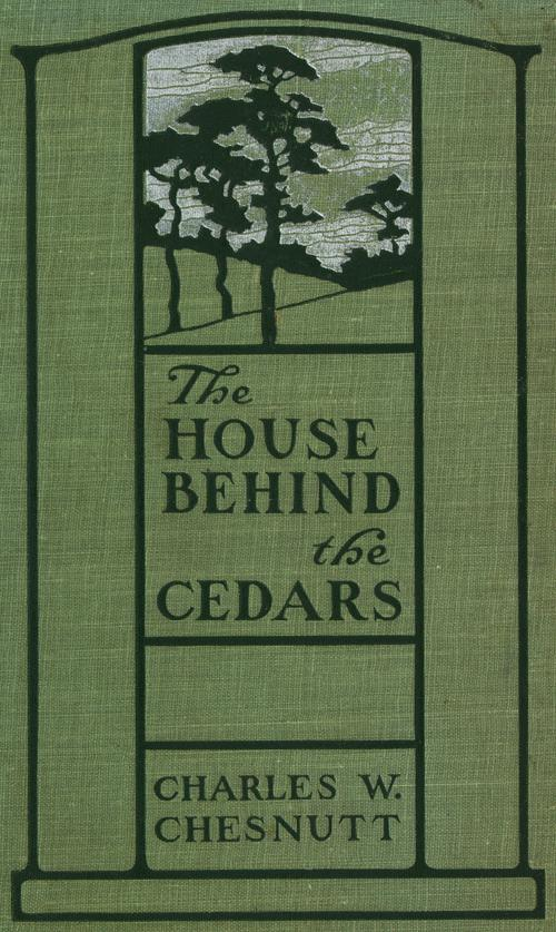 Book cover from The House Behind the Cedars, a novel written by Charles Waddell Chesnutt. Published by Houghton, Mifflin and Company in 1900.